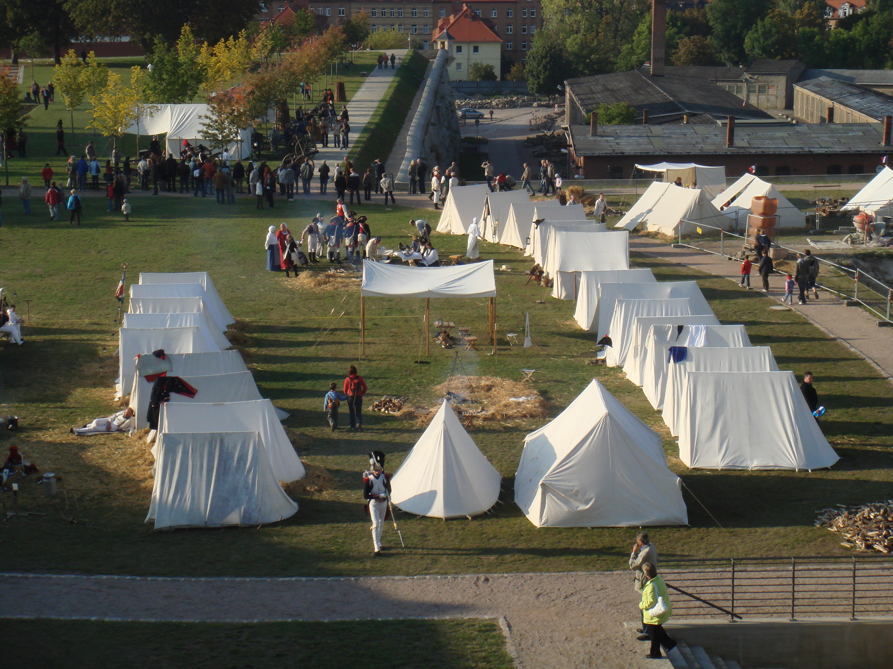 Bivouac camp at the 200th anniversary of the Congress of Erfurt.